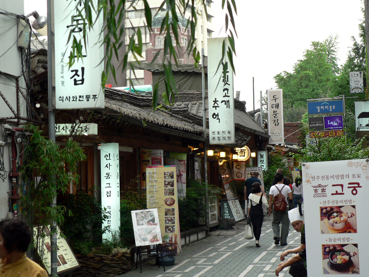 photo by 東大策略顧問